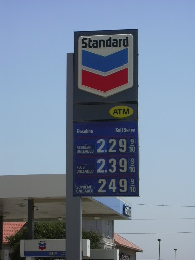 One of 16 Chevron stations branded as "Standard" to protect Chevron's trademark of "Standard Oil". Photograph taken 31-July-2005 by gridlockjoe.